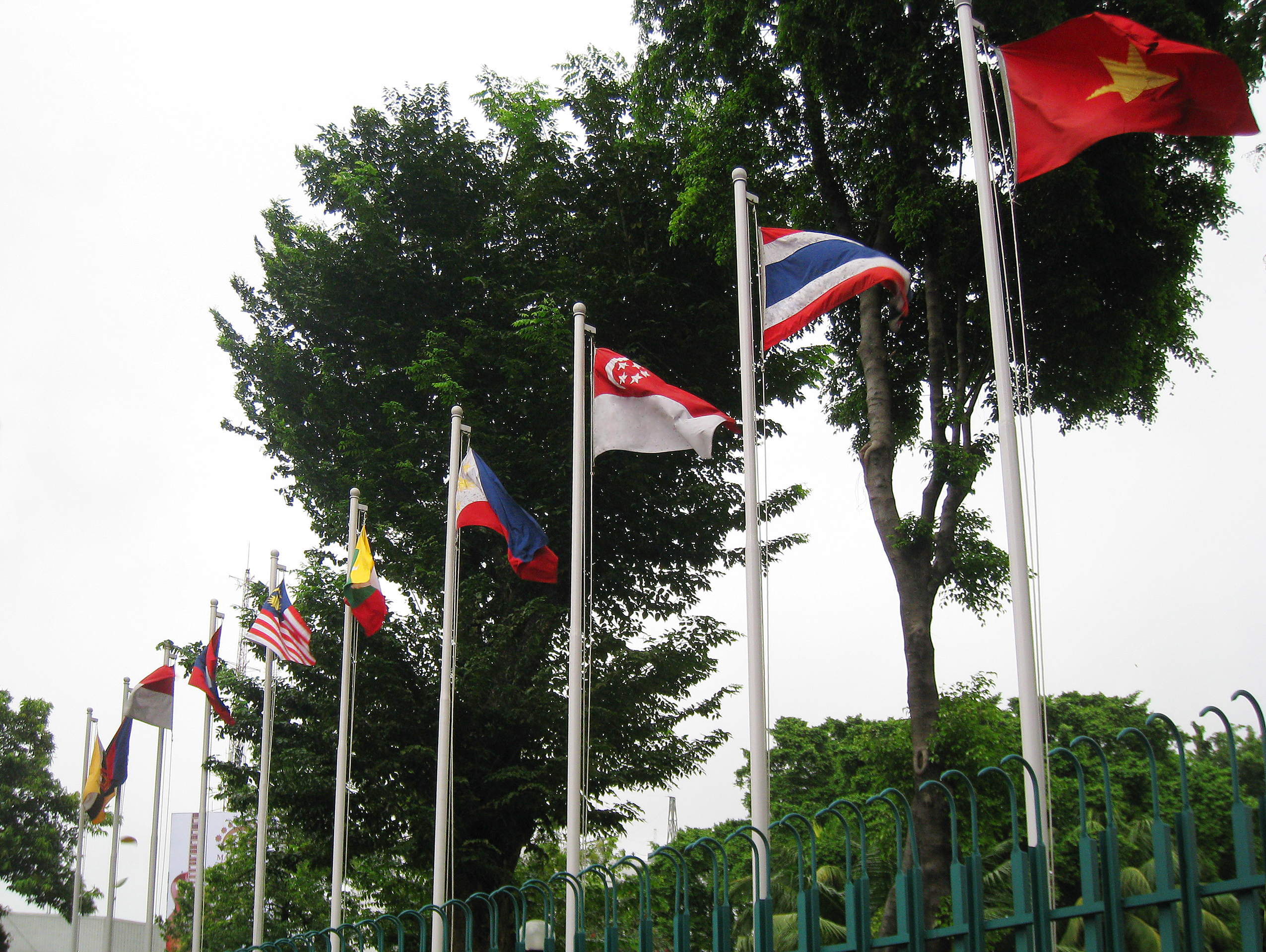 The flags of Association of Southeast Asia Nations (ASEAN) members in ASEAN headquarter at Jalan Sisingamangaraja No.70A, South Jakarta, Indonesia. From left the flags of: Brunei, Cambodia, Indonesia, Laos, Malaysia, Myanmar, Philippines, Singapore, Thailand, Vietnam.